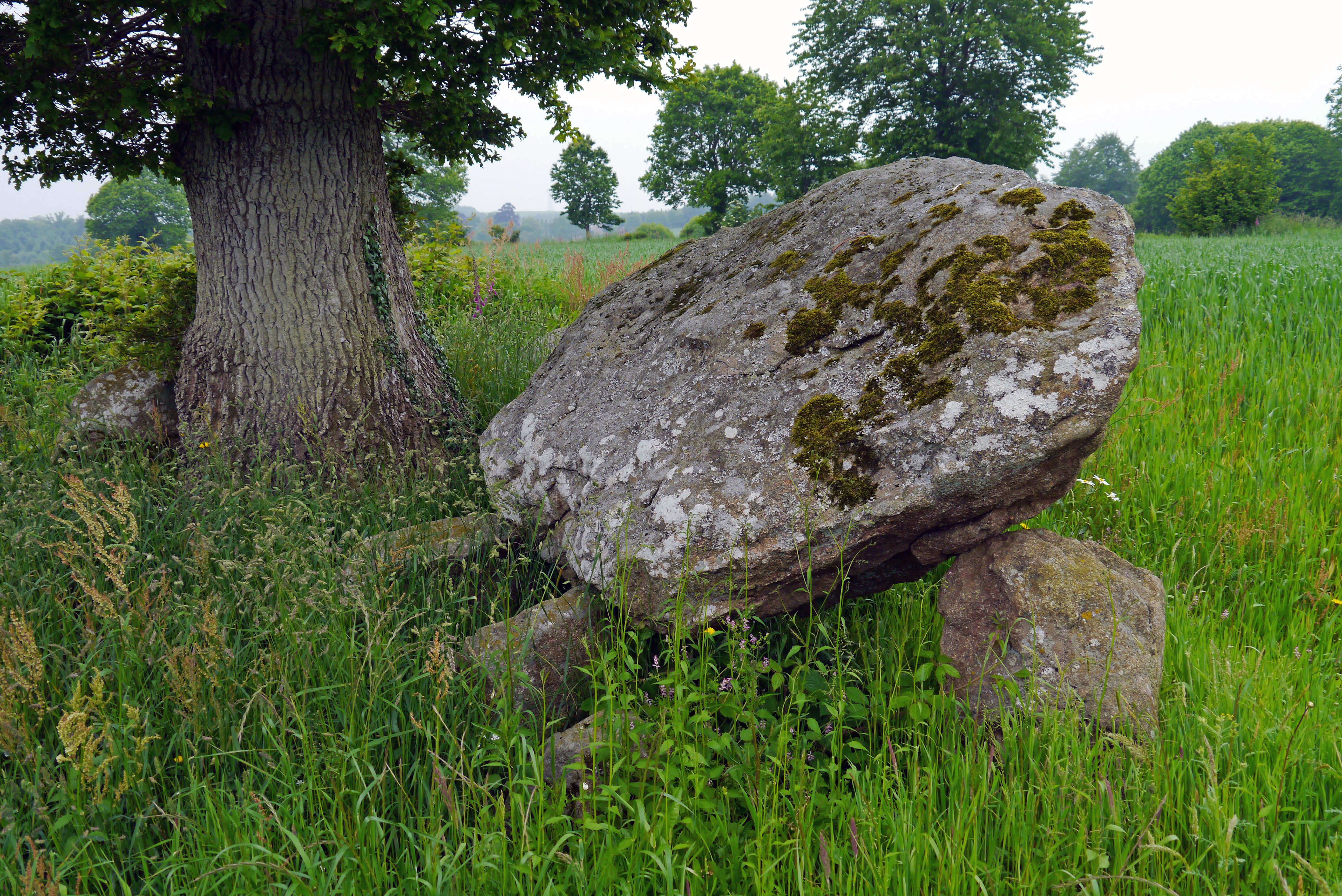 Saint-Bômer-les-Forges, Orne, France. Dolmen du Creux.